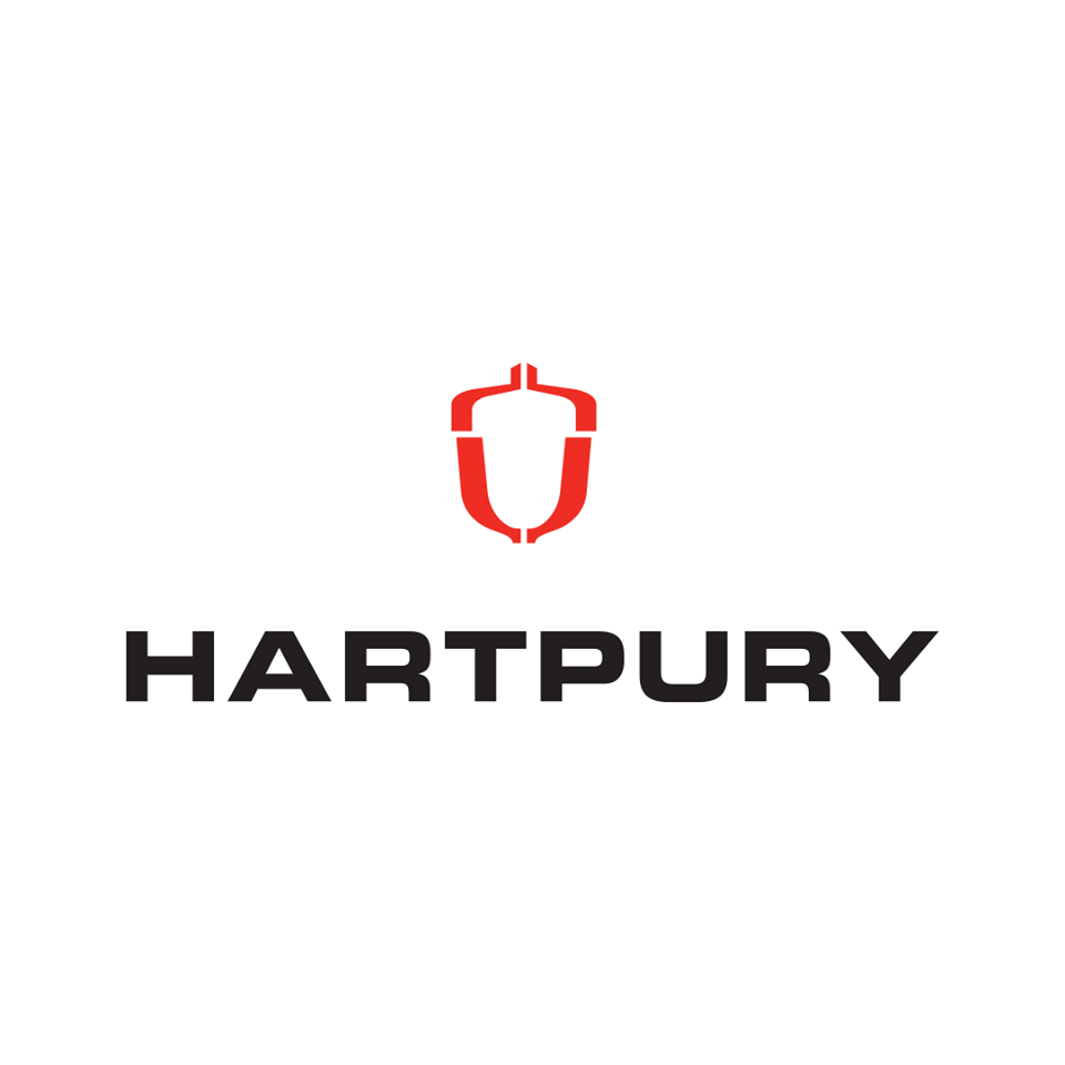 Hartpury logo